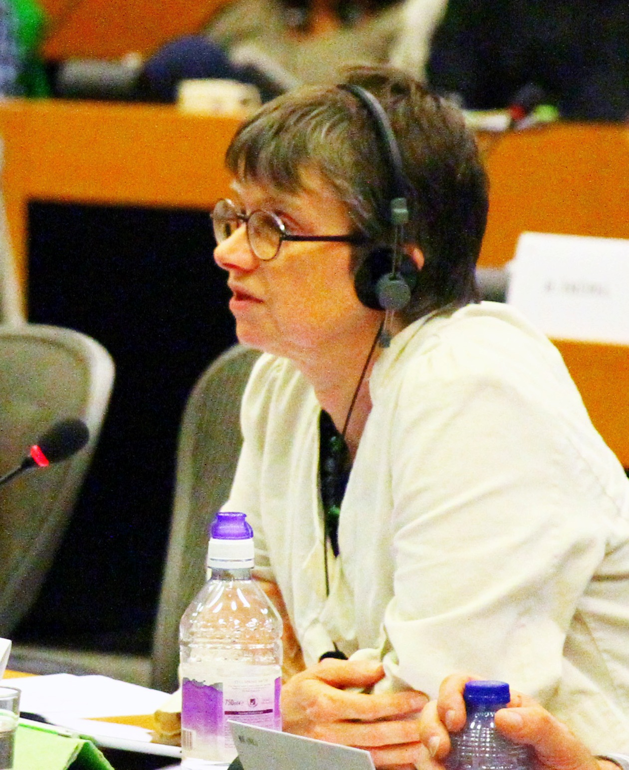 MEP Molly Scott Cato at a hearing with Jean-Claude Juncker of the Greens/EFA parliamentary group